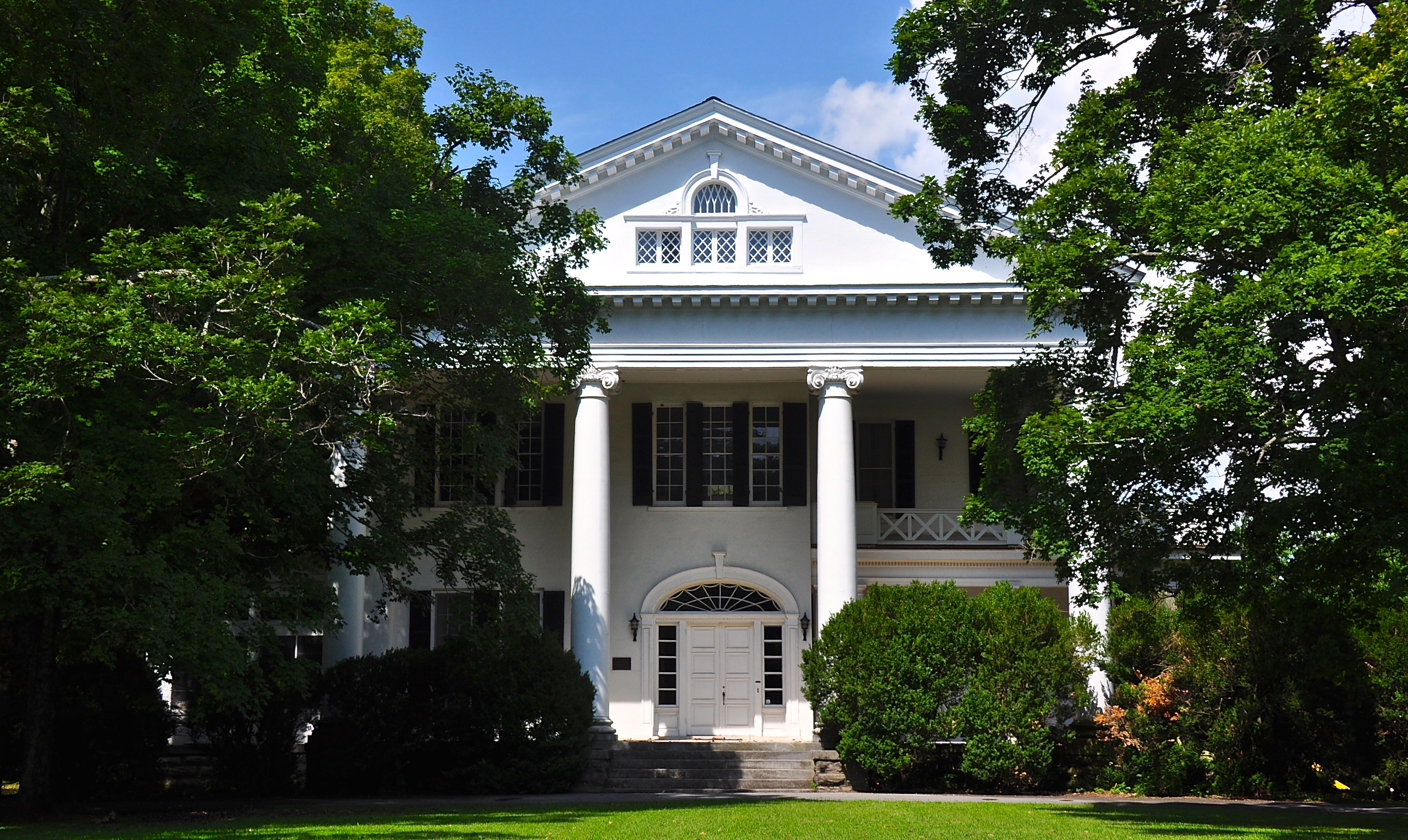 Henry H. Mayberry House, U.S. Route 31, just across the Harpeth River north of Franklin Franklin